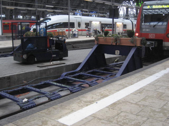 service platform Frankfurt am Main (platform in the middle)